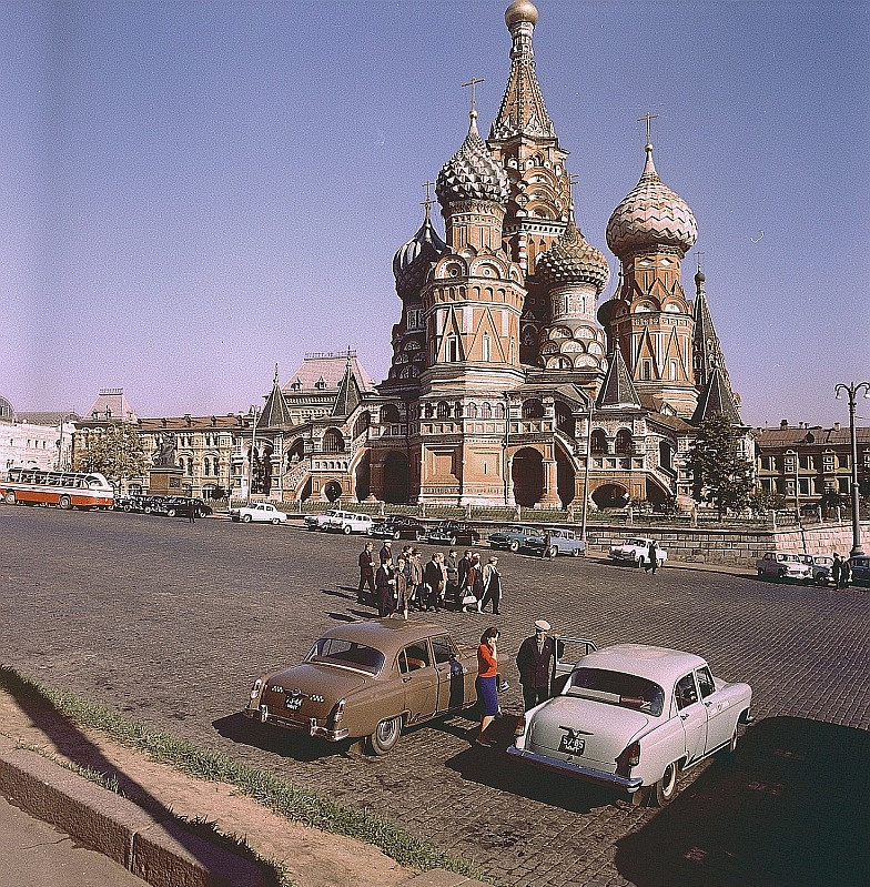 Original image description from the Deutsche FotothekMoskau. Basilius-Kathedrale